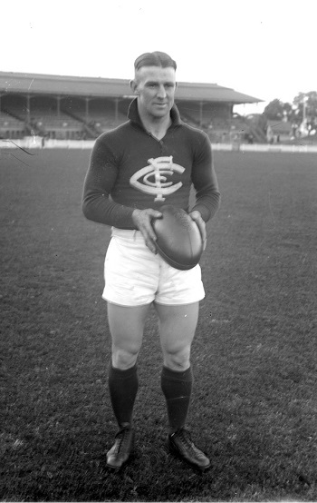 Mickey Crisp at training from 1931-1941